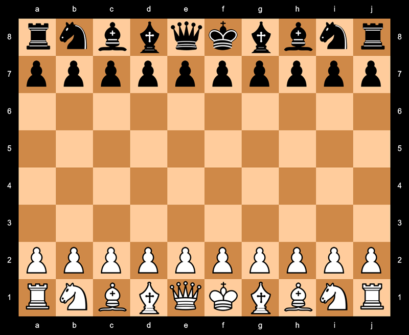 Gemini Chess is a Chess Variant played on 10x8 board using 2 Archbishops. Difference from Janus Chess (use of 2 Januses, another name given to Archbishop) is the initial placement of the Archbishops. In Gemini Chess, King and Queen are in the center of the Board like in Classic Chess. The difference is that the Archbishops are between the Royal pieces and their Bishops. Initial setup is then as follows: RNBArQKArBNR